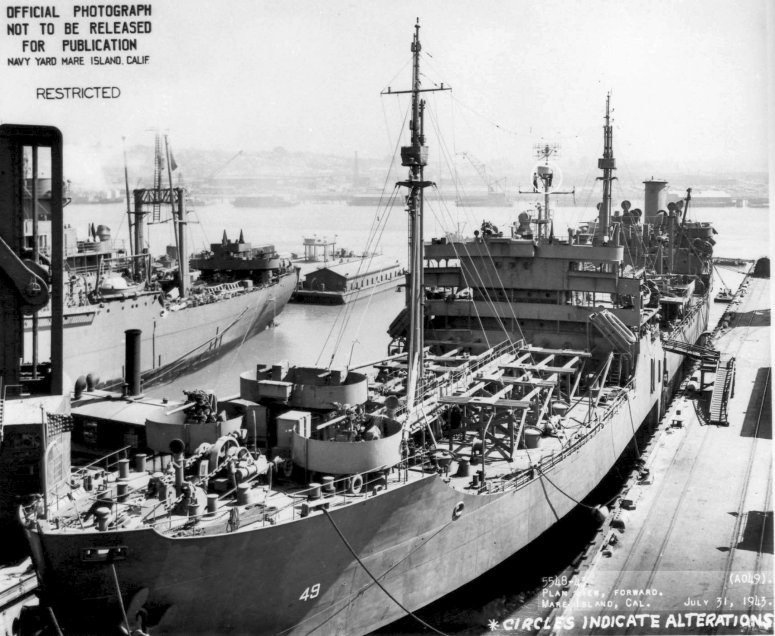 Forward plan view of USS Suamico (AO-49) moored at Mare Island Navy Yard, Vallejo, CA., 31 July 1943. On the left is USS Alchiba (AKA-6). Navy Yard Mare Island photo # 5548.